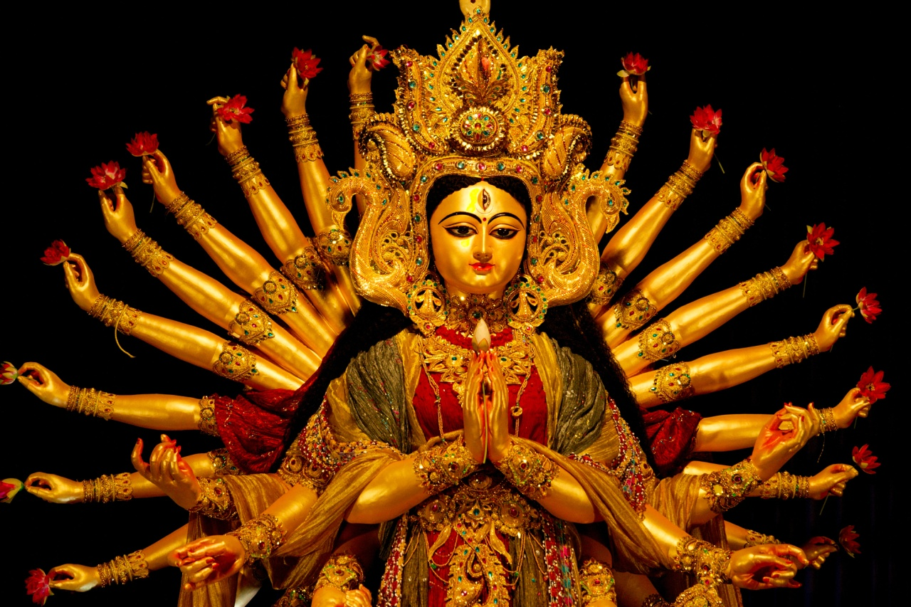 A distinctive idol of Goddess Durga, during Durga Puja festival in Kolkata, 2008. This photo was taken on October 6, 2008 using a Canon EOS 400D Digital.